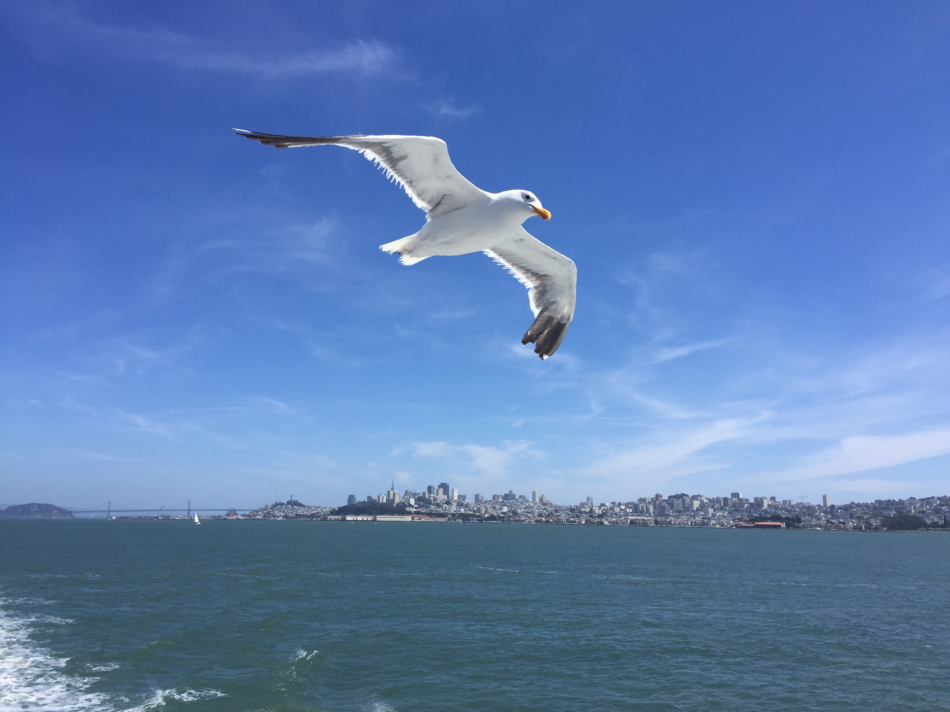 A Western Gull (Larus Occidentalis) in flight, the bay and the city of San Francisco can be seen in the background.